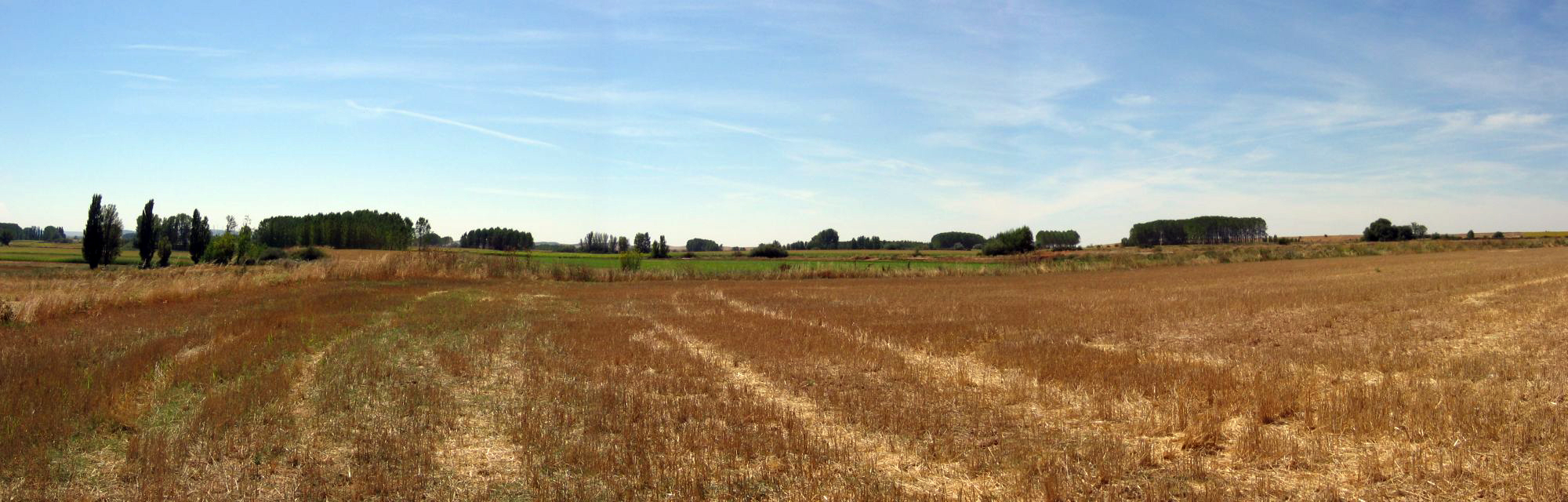 Campo de batalla de Llantada. En este lugar tuvo lugar la batalla que enfrentó a los herederos de Fernando I, en la que Sancho, ayudado por Rodrigo Díaz de Vivar, su alférez, derrotó a su hermano Alfonso. Tuvo lugar el 19 de julio de 1068 en las orillas del río Pisuerga, en la frontera entre el reino de León y el reino de Castilla, cerca del actual pueblo de Lantadilla (Palencia, Castilla y León).